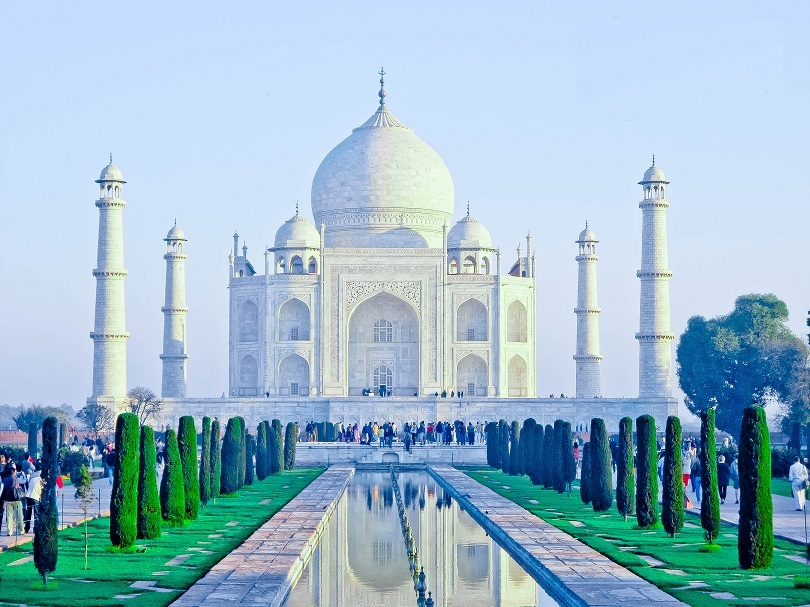 Taj Mahal and grounds including the Masjid on the west side, the pavilions on the east and west sides of the grounds; great south entrance gateway and great courtyard surrounded by cloisters.